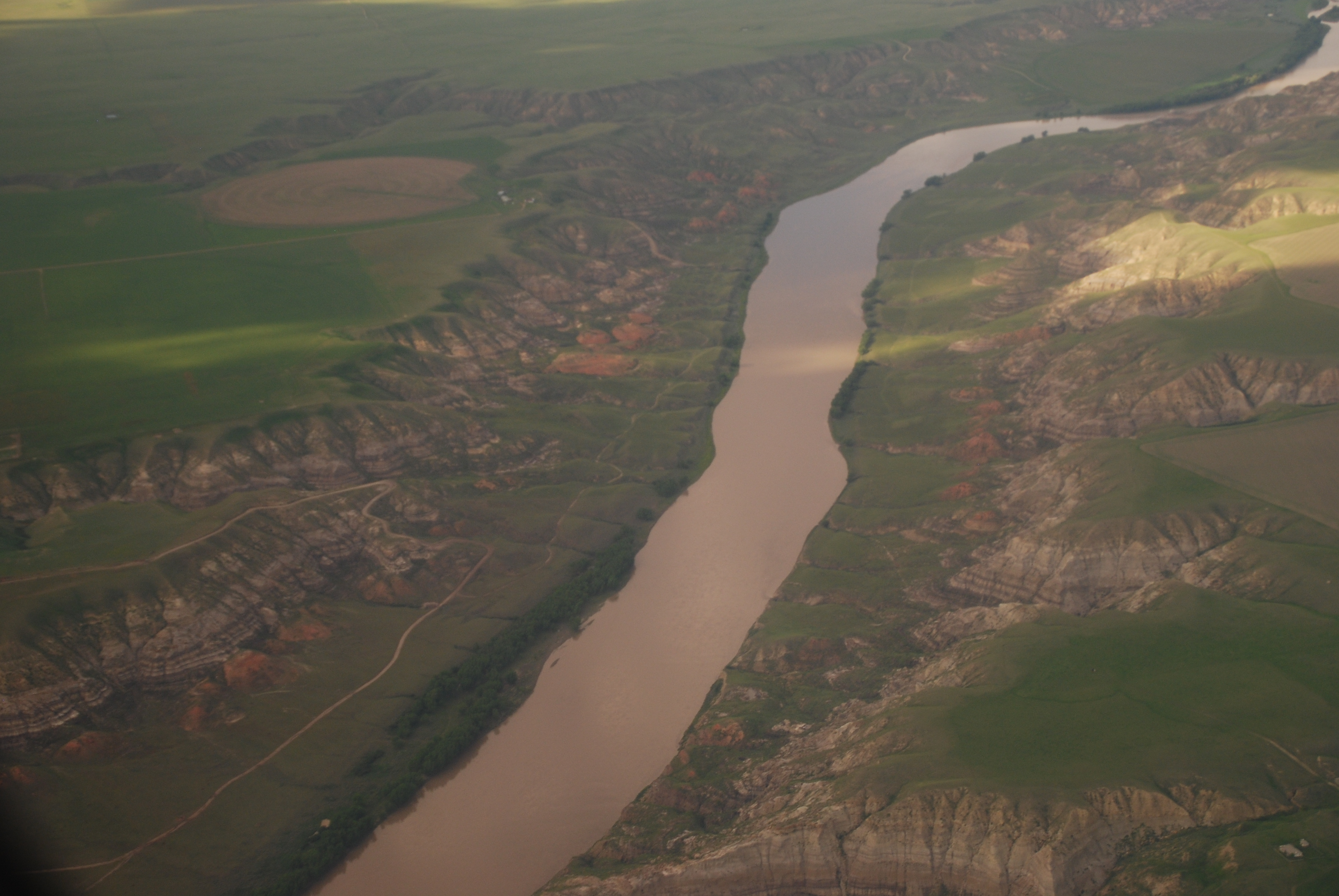 South Saskatchewan near Medicine Hat